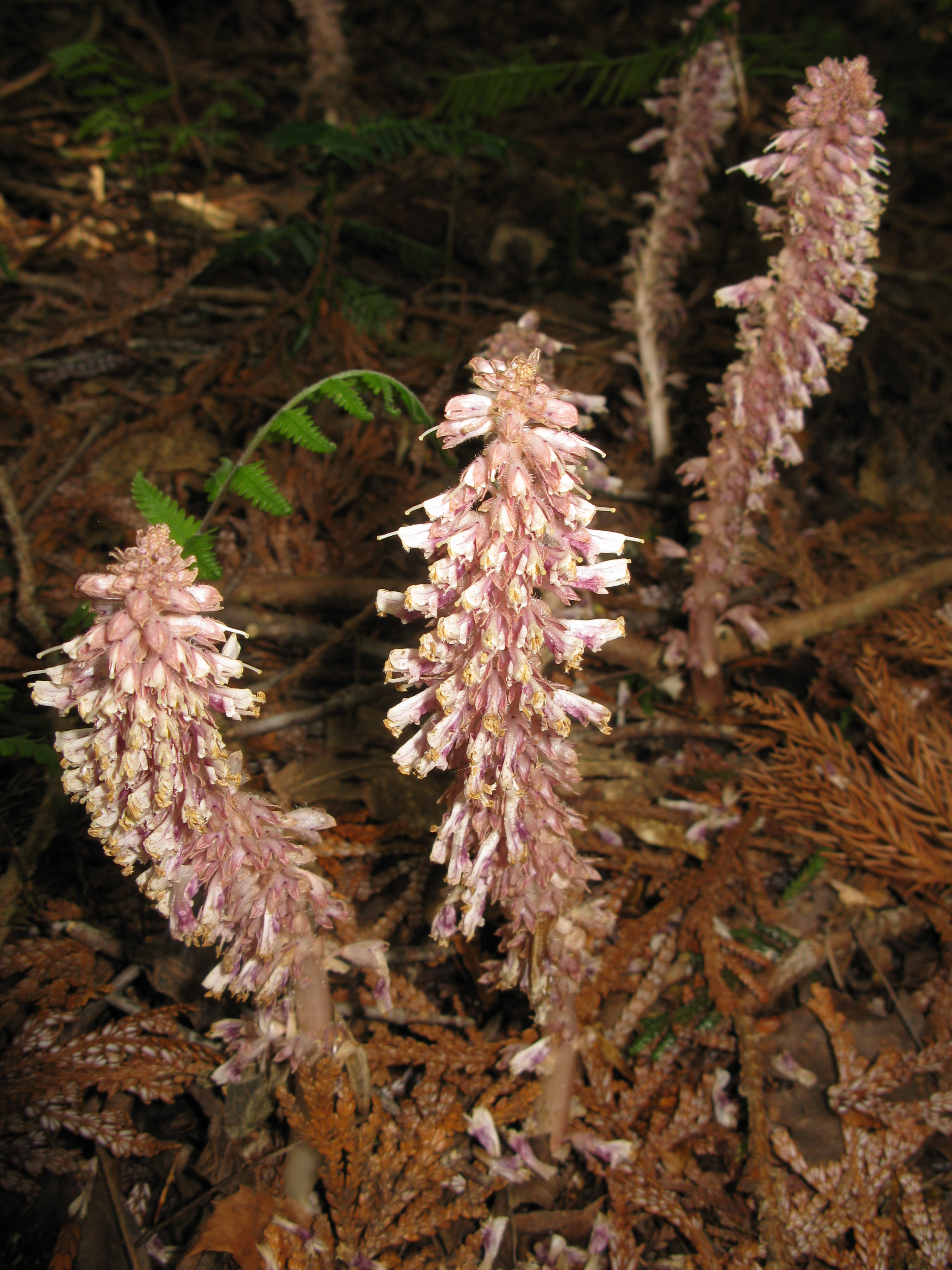 Lathraea japonica, Aizu area, Fukushima pref., Japan